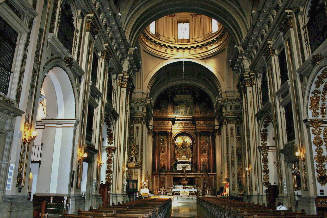 Interior of Colegiata de San Isidro (Collegiate Church of St. Isidore) in Madrid (Spain).